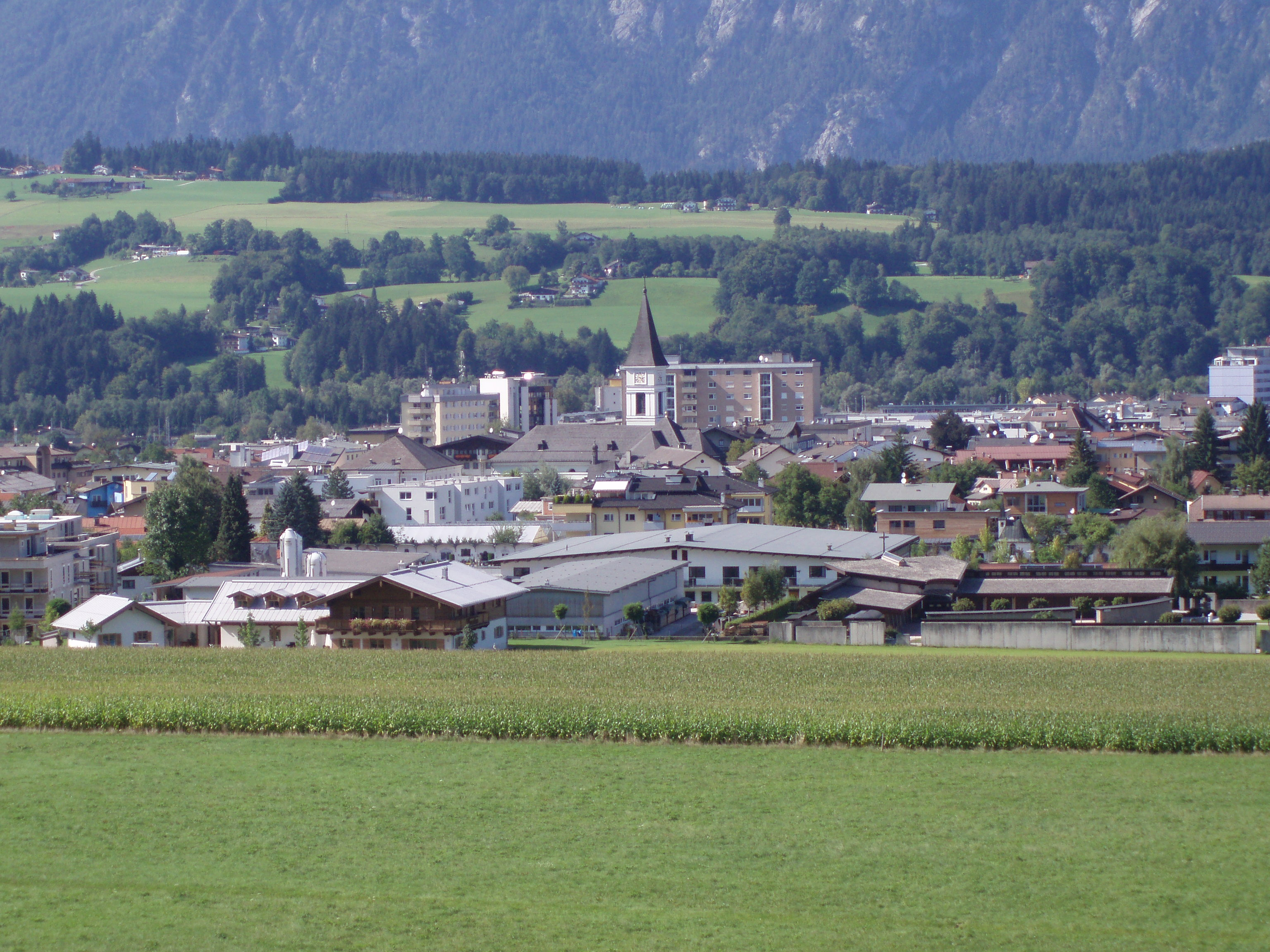 The center of the Tyrolean town Wörgl, Austria